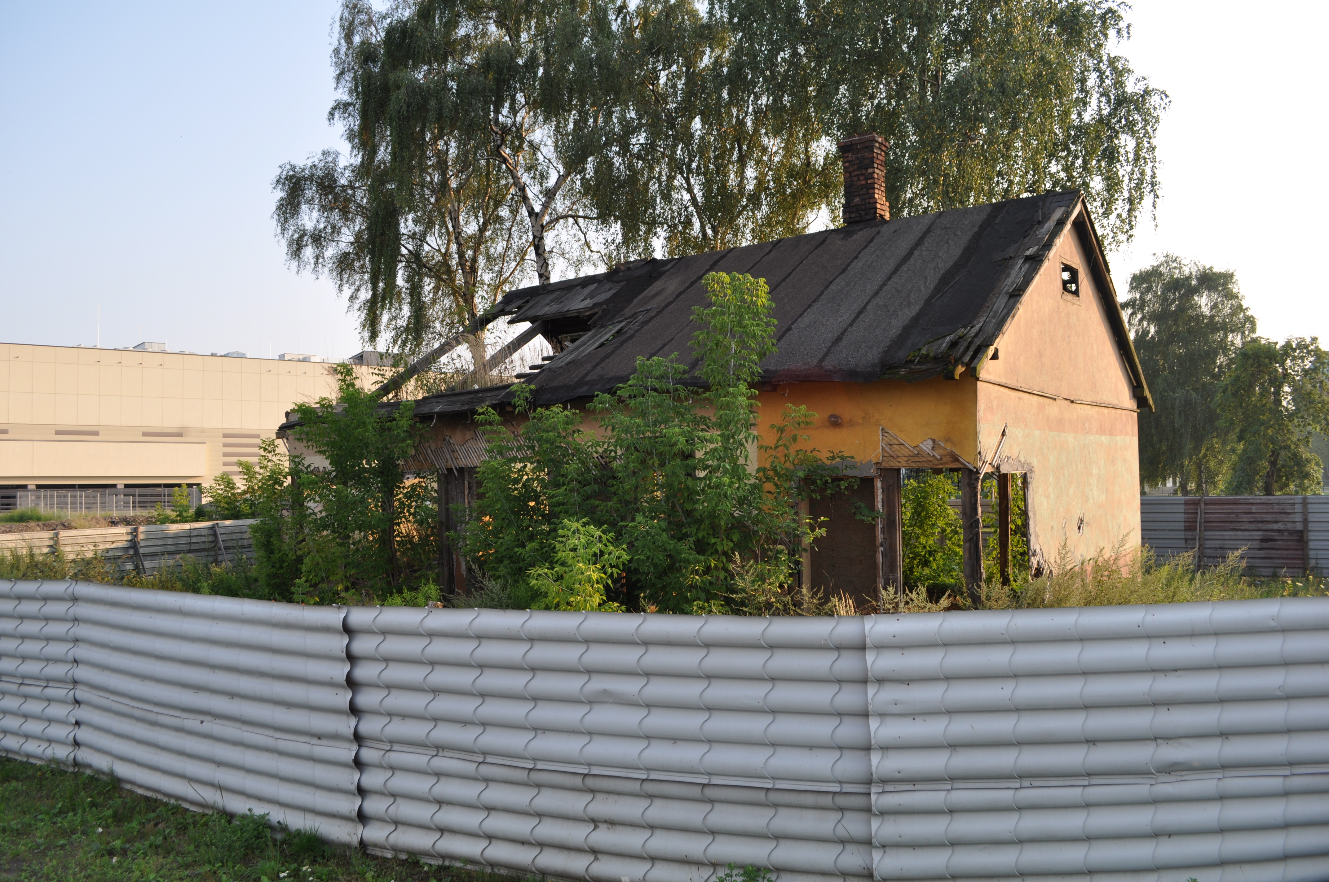 Częstochowa Watra train stration ruins